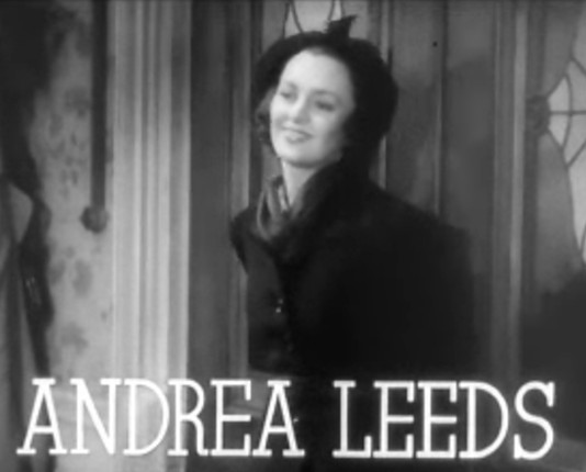 Screenshot of Andrea Leeds from the trailer for the film Stage Door.